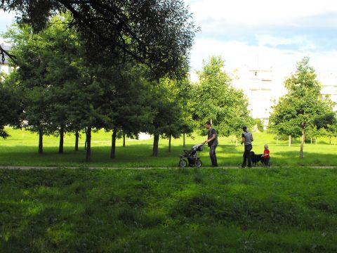 Krašuona park in utena City